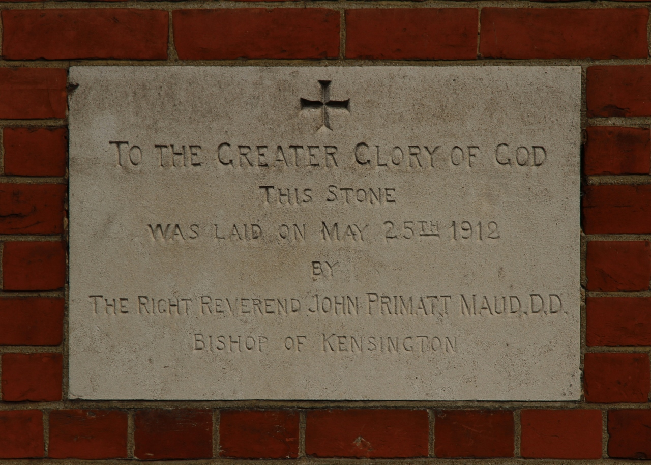 Foundation stone at the west end of St Hilda's parish church, Woodthorpe Road, Ashford, Middlesex